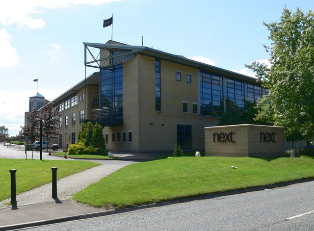 Next The head office of Next Retail Ltd..